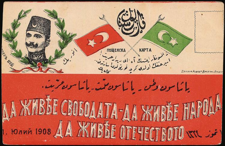 Postcard commemorating the Young Turk Revolution of 24 July 1908, with the slogan "Long live the fatherland, long live the nation, long live liberty" in Ottoman Turkish and Greek, and a picture of Enver Pasha. In modern Turkish: "Yaşasın Vatan - Yaşasın Millet - Yaşasın Hürriyet!" In modern Bulgarian: "живѣе" is "живее", "Енверъ" is "Енвер", and "Юлий" is "юли"